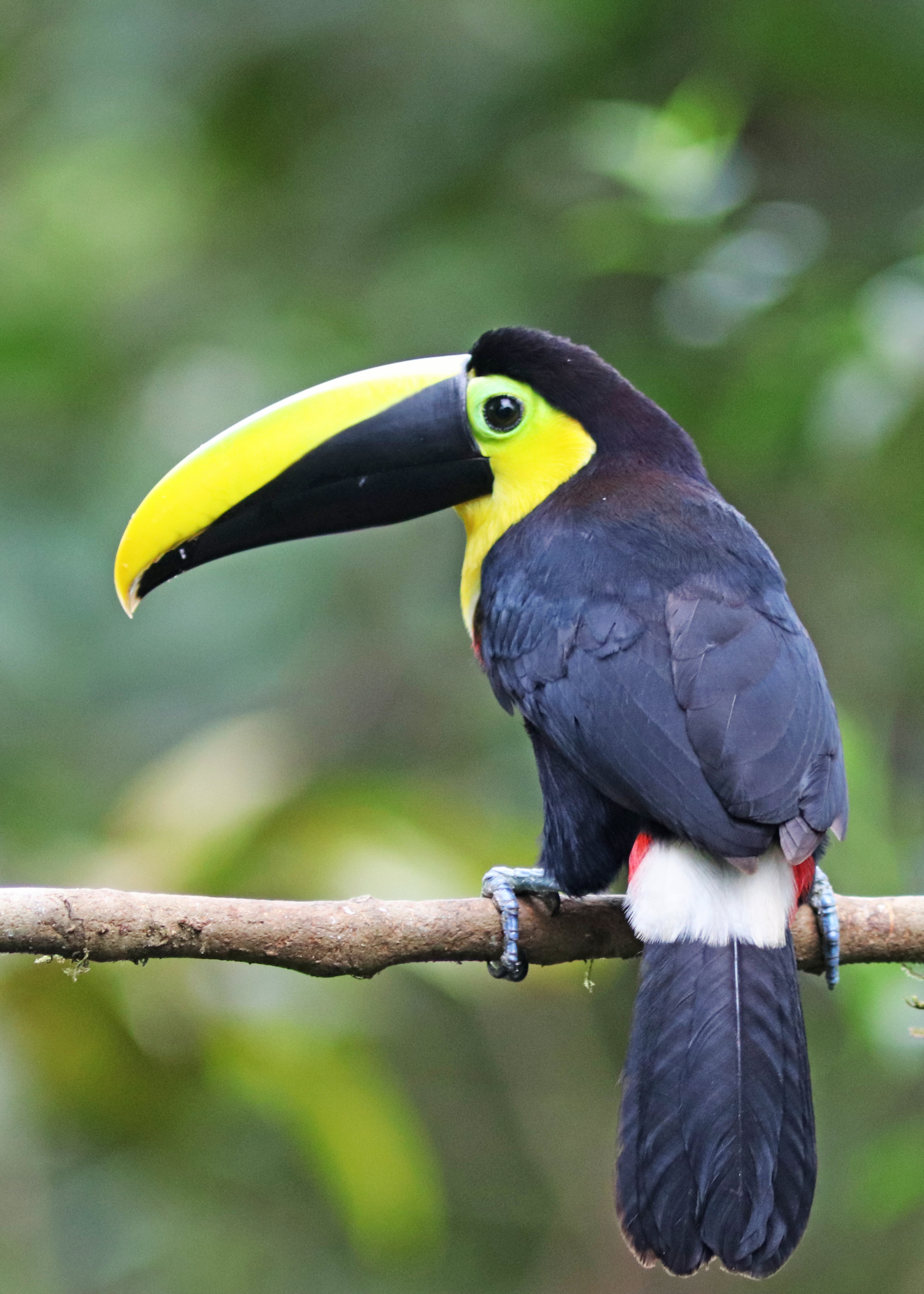 A Choco Toucan at San Jorge Eco-Lodge Milpe, Ecuador